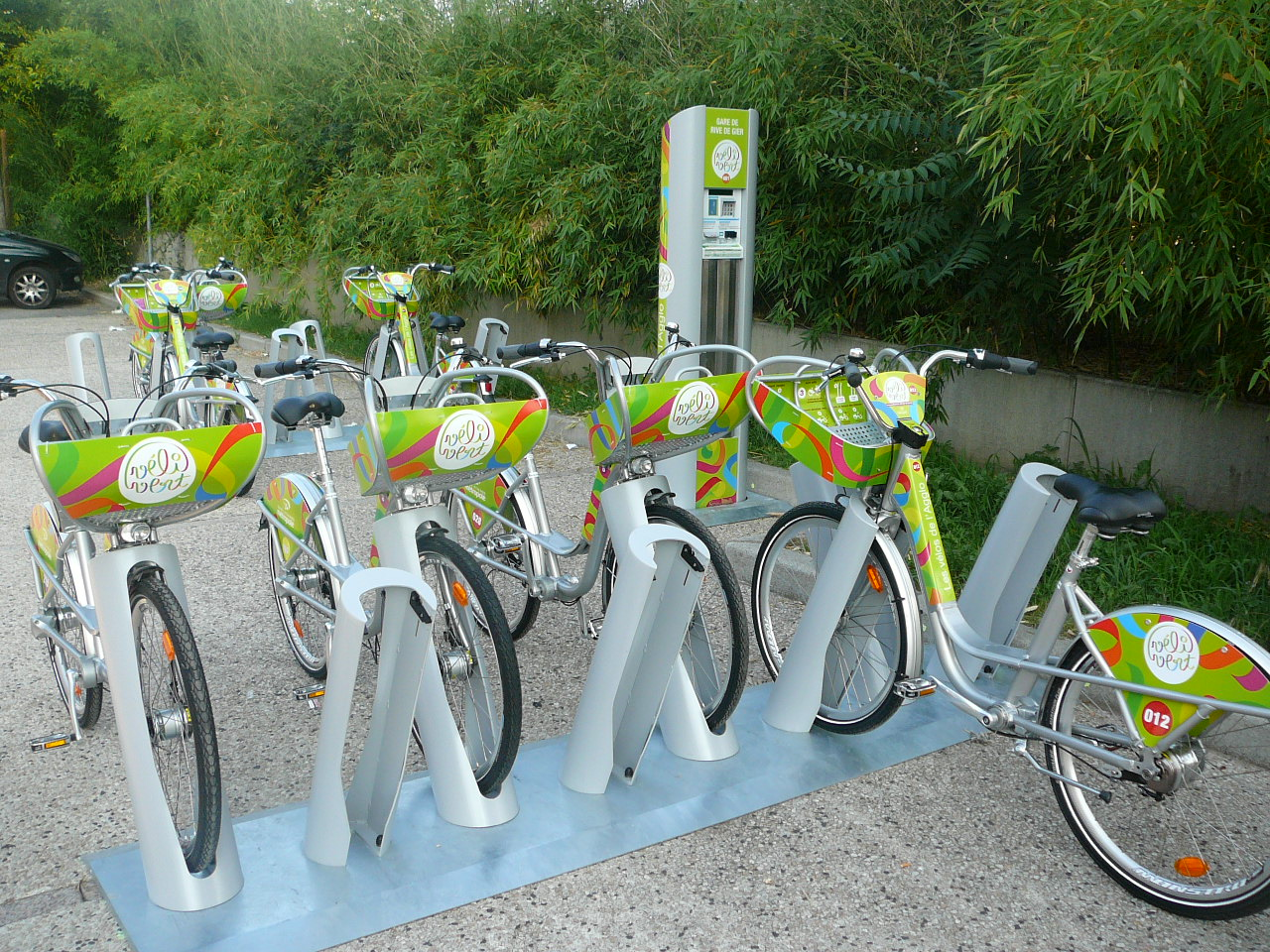 The "Gare de Gier" bike station of the Vélivert bike sharing scheme in the Saint-Etienne metropolitan area, with bikes in the stands. La station "Gare de Gier" du système de vélocation Vélivert dans l'agglomération Saint-Etienne métropole.